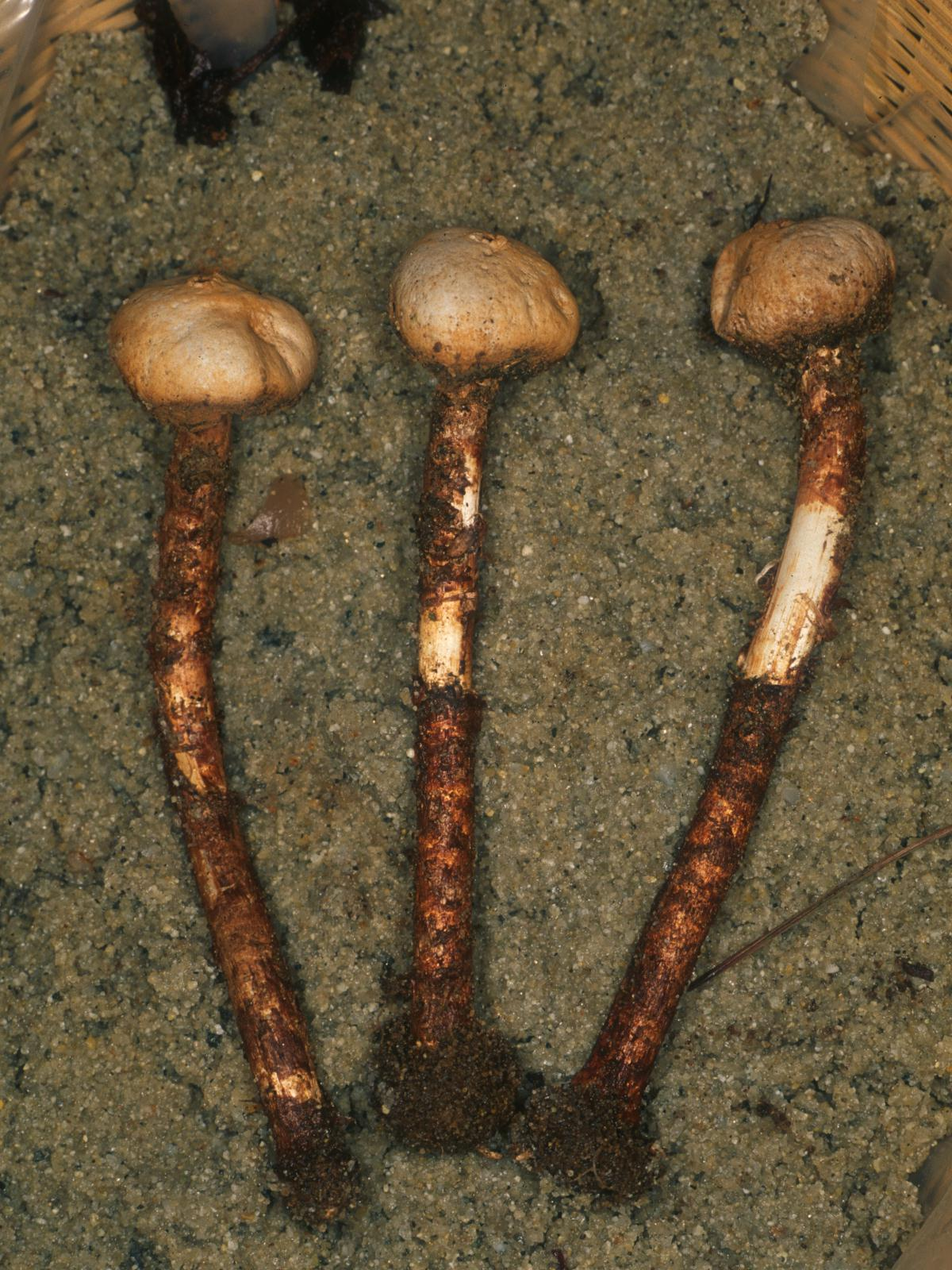 The fungus Tulostoma macrocephalum Long. Specimens photographed at the Santa Cruz Fungus Fair, Santa Cruz, Santa Cruz Co., California, USA.